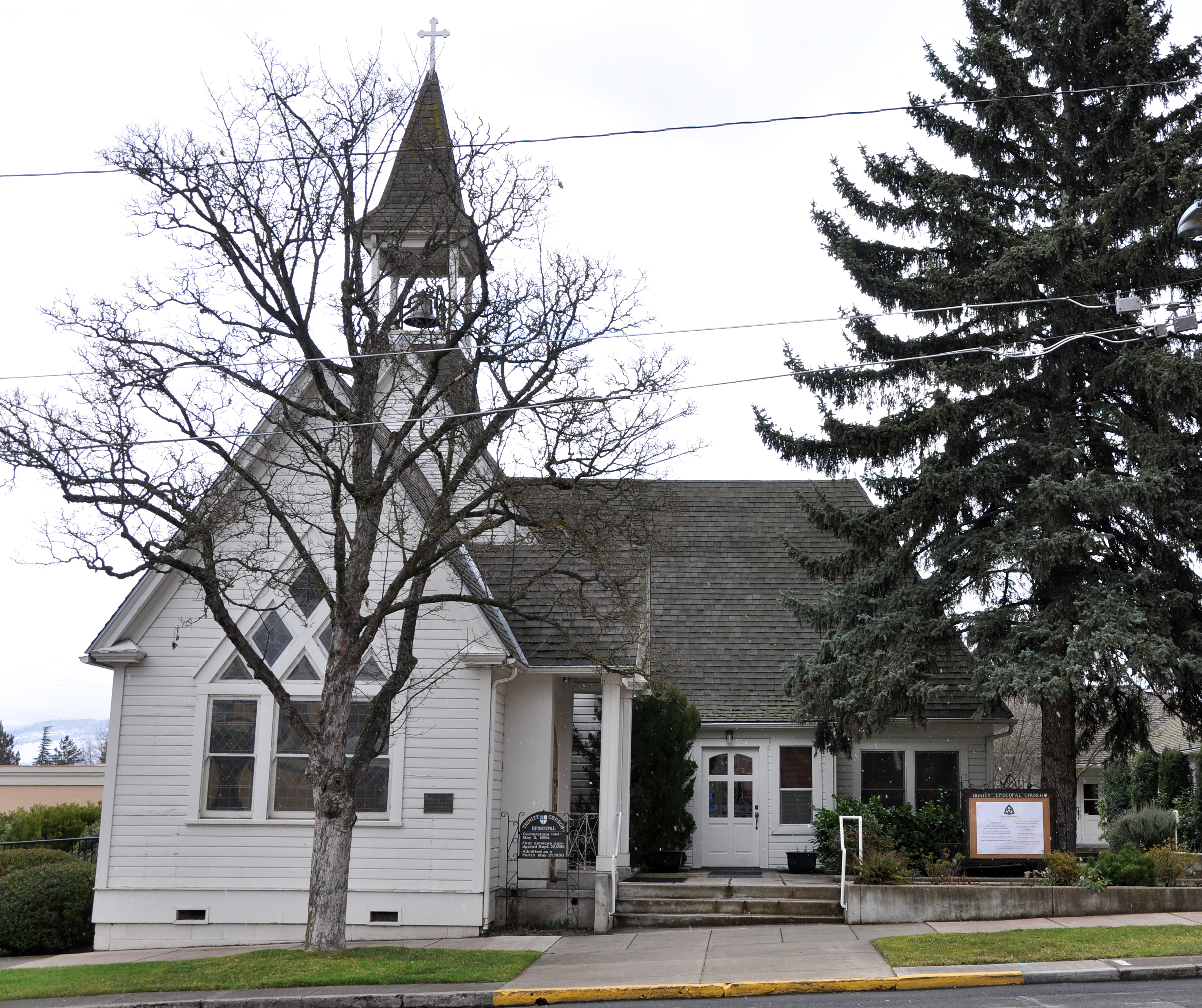 Trinity Episcopal Church in Ashland in the U.S. state of Oregon